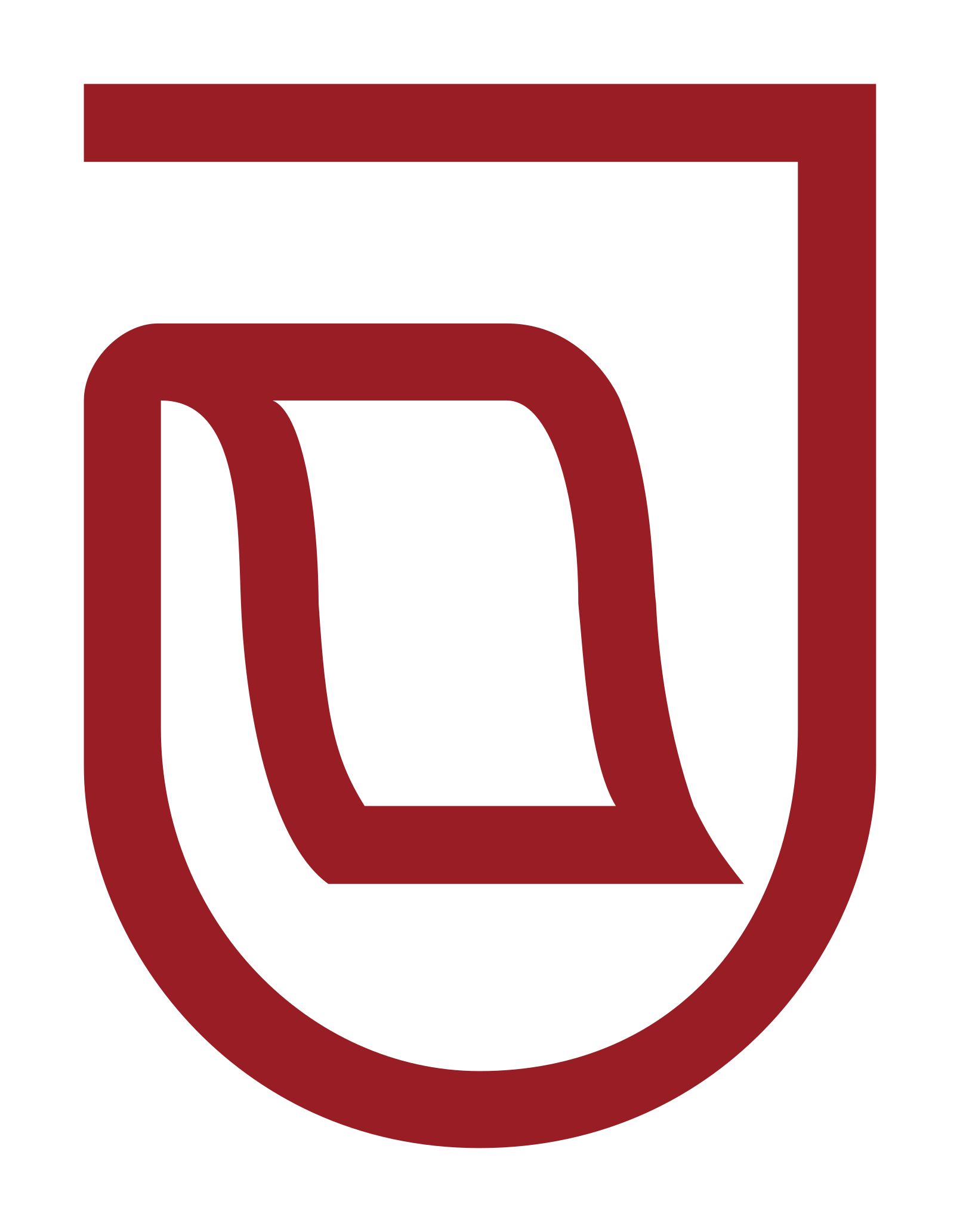 Logo Jenzig Verlag